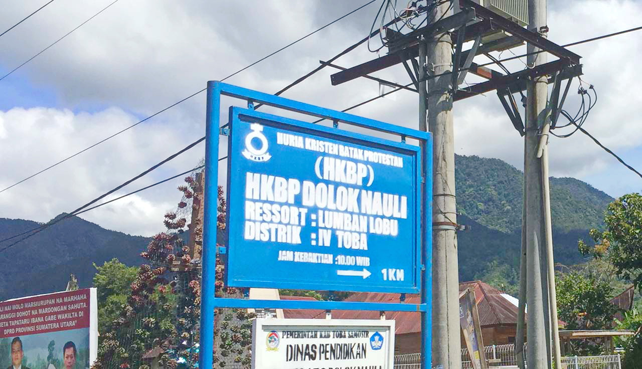 HKBP HKBP Dolok Nauli, Res. Lumban Lobu church in Bonatua Lunasi, Toba Samosir